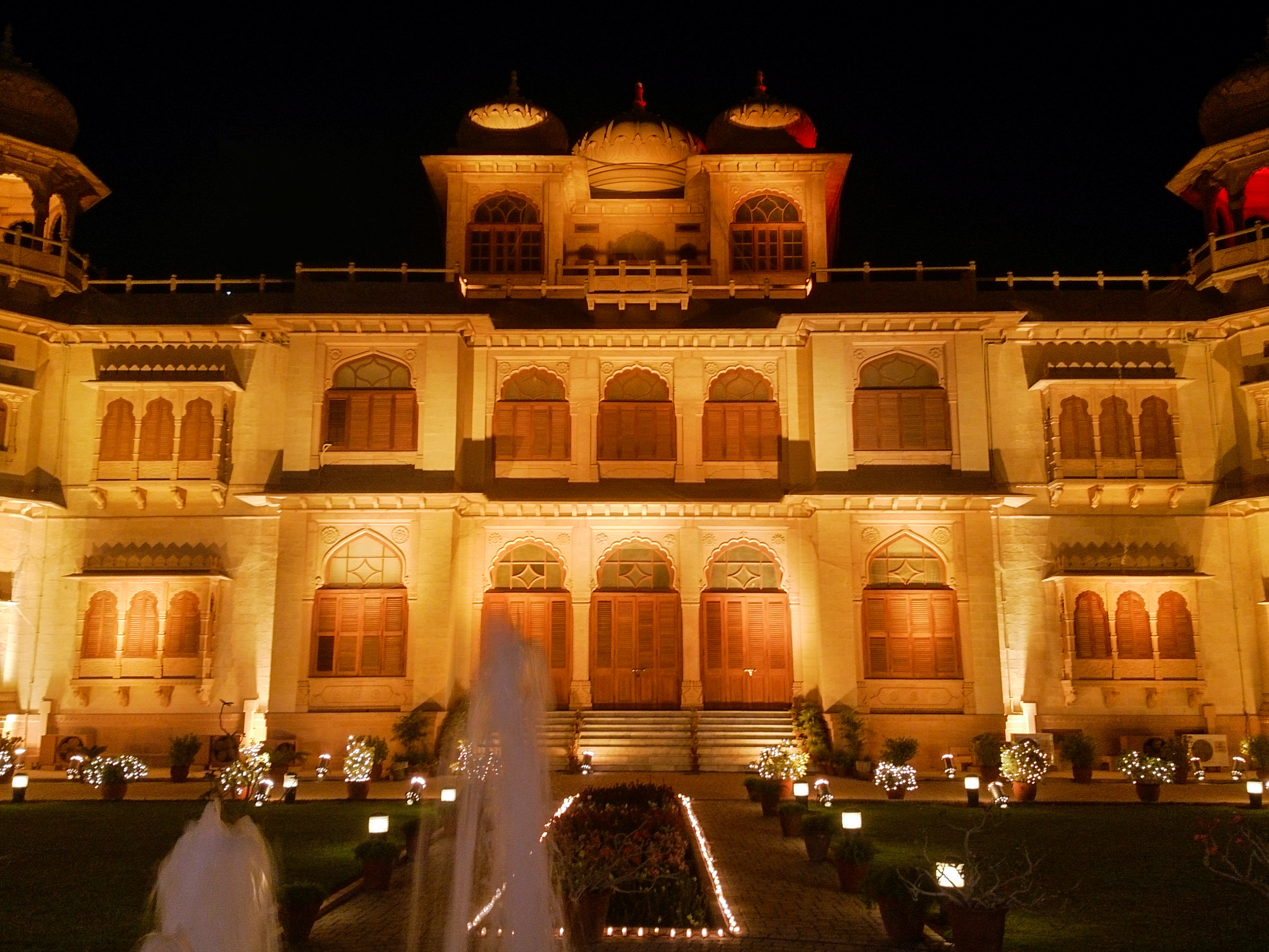 Mohatta Palace This is a photo of a monument in Pakistan identified as the SD-P-74